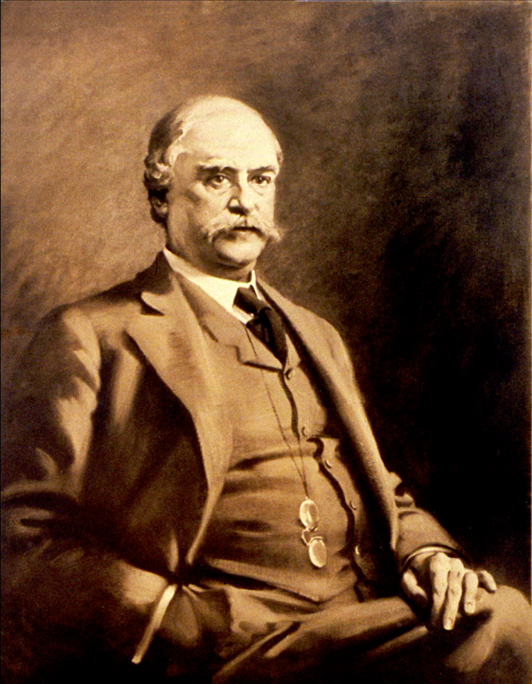 Portrait of Robert Wood Johnson I